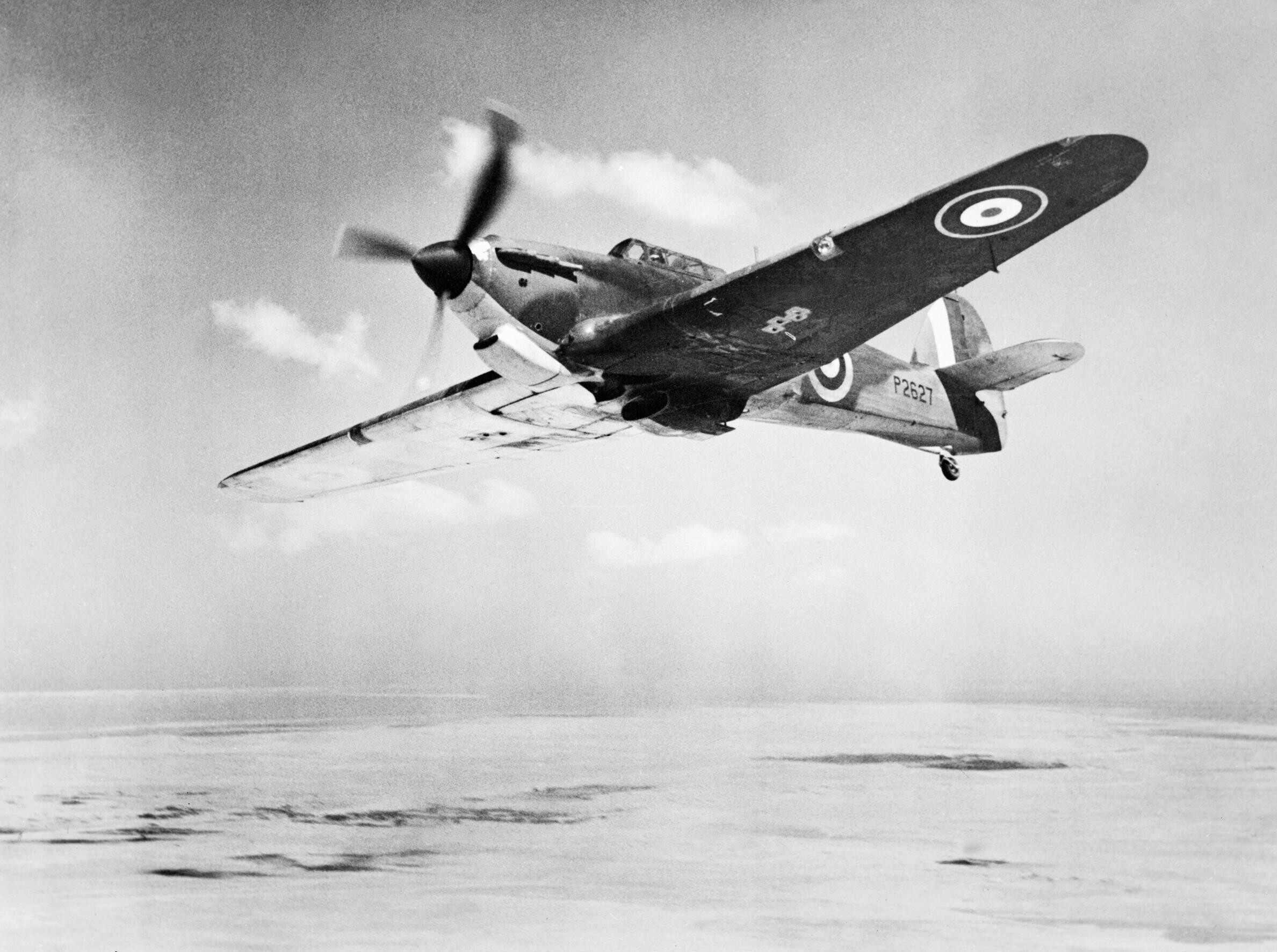 A Hawker Hurricane Mk I in flight over Egypt, October 1940. A Hawker Hurricane in flight over Egypt, October 1940.